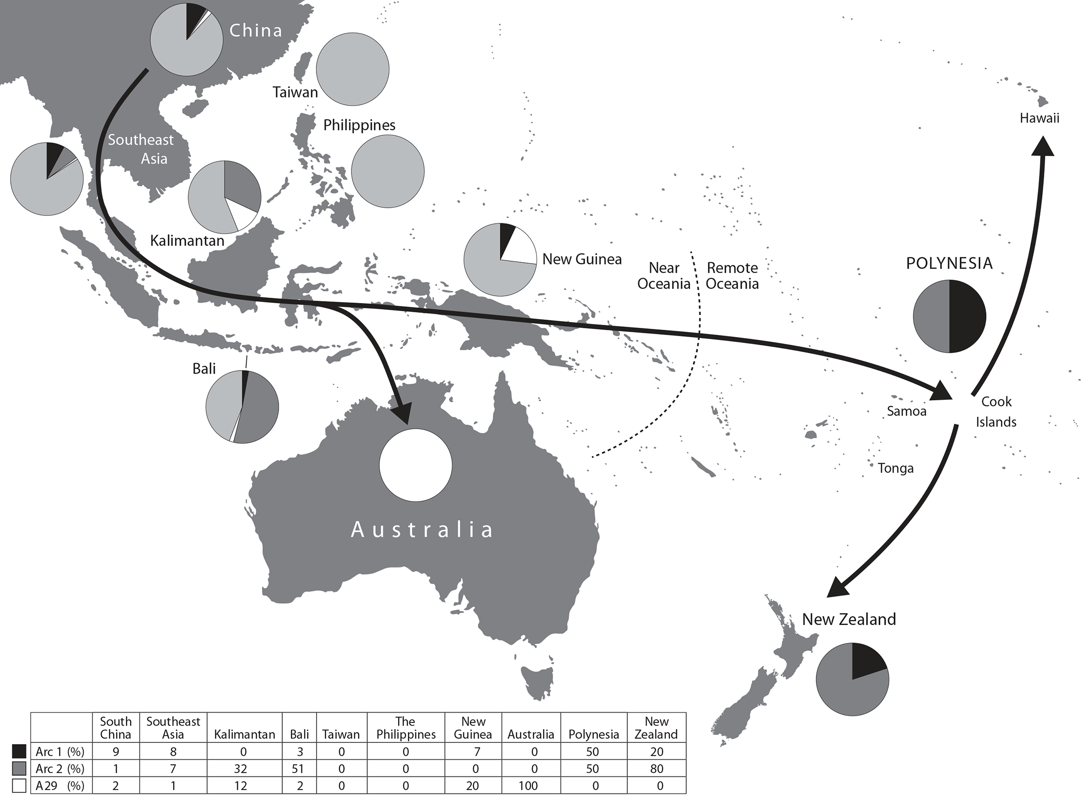 The chart shows the proposed route for the introduction of dogs from East Asia to Polynesia, New Zealand and Australia - via the islands of the South East Asian archipelago - indicated through mDNA sequences. Other information Public Library Of Science is a nonprofit publisher. "Copyright: © 2015 Greig et al. This is an open access article distributed under the terms of the Creative Commons Attribution License, which permits unrestricted use, distribution, and reproduction in any medium, provided the original author and source are credited."